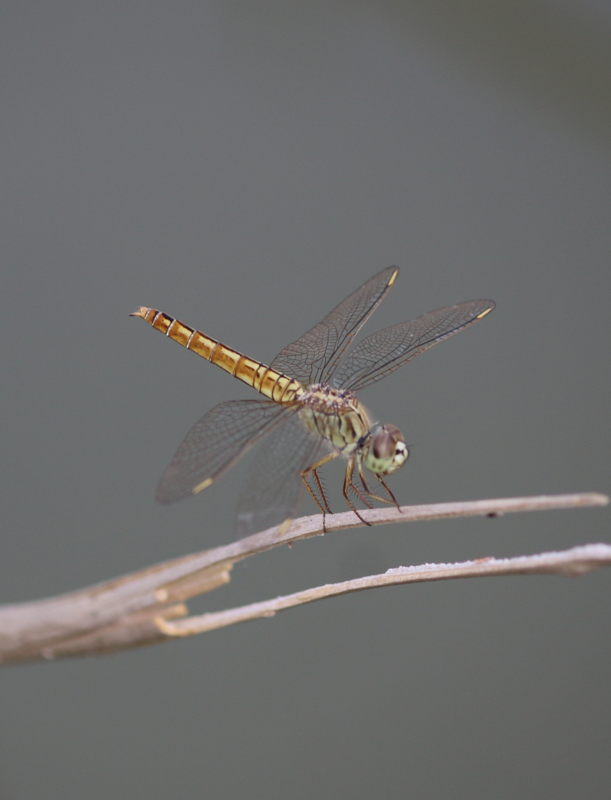 Brachythemis contaminata, Female